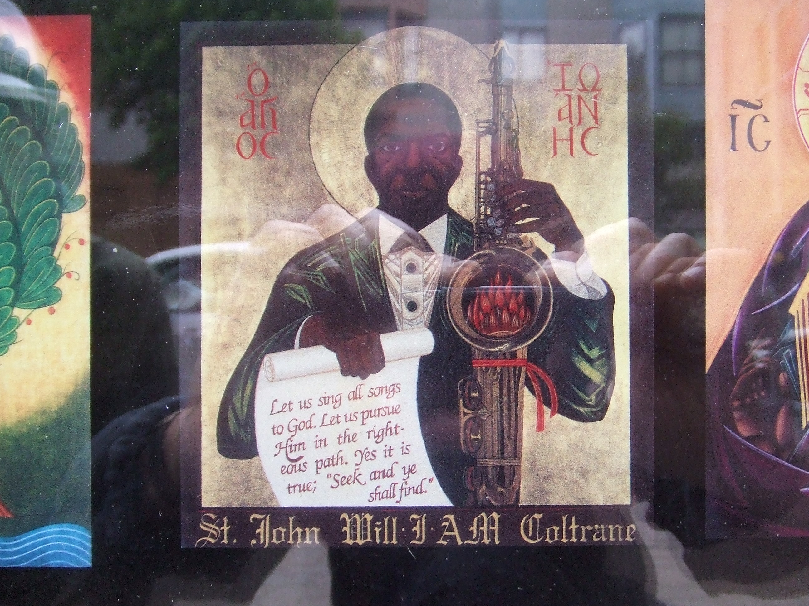 coltrane church san francisco